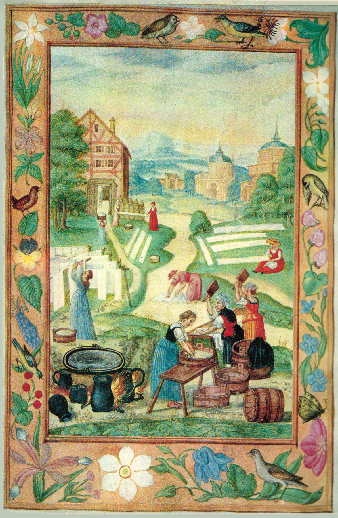 The great washday before the city, illustrating women's work, from the alchemical handbook Splendor Solis, 1531